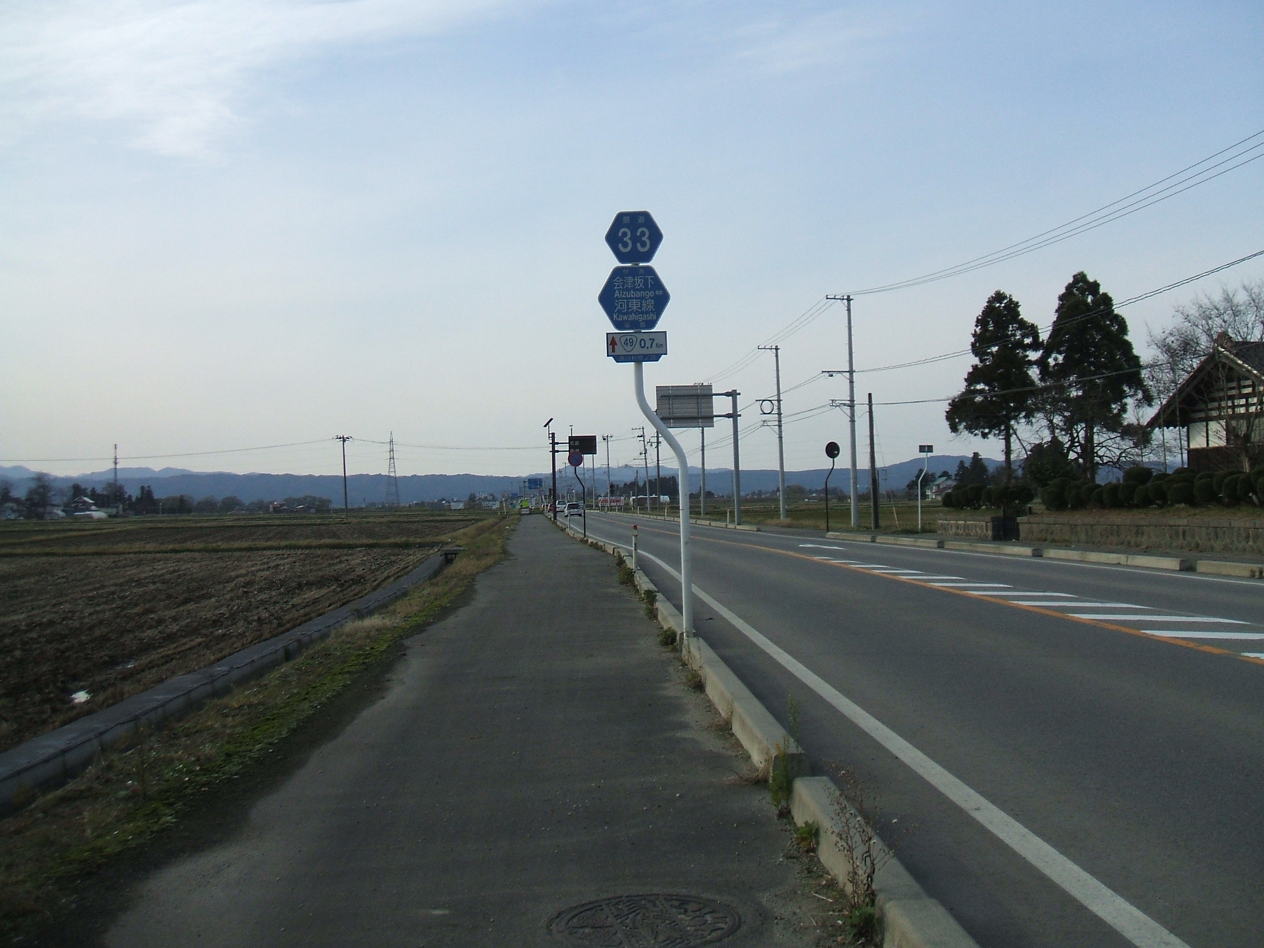 A Landscape of Fukushima prefectural road, route 33. This is taken at Yugawa Village.